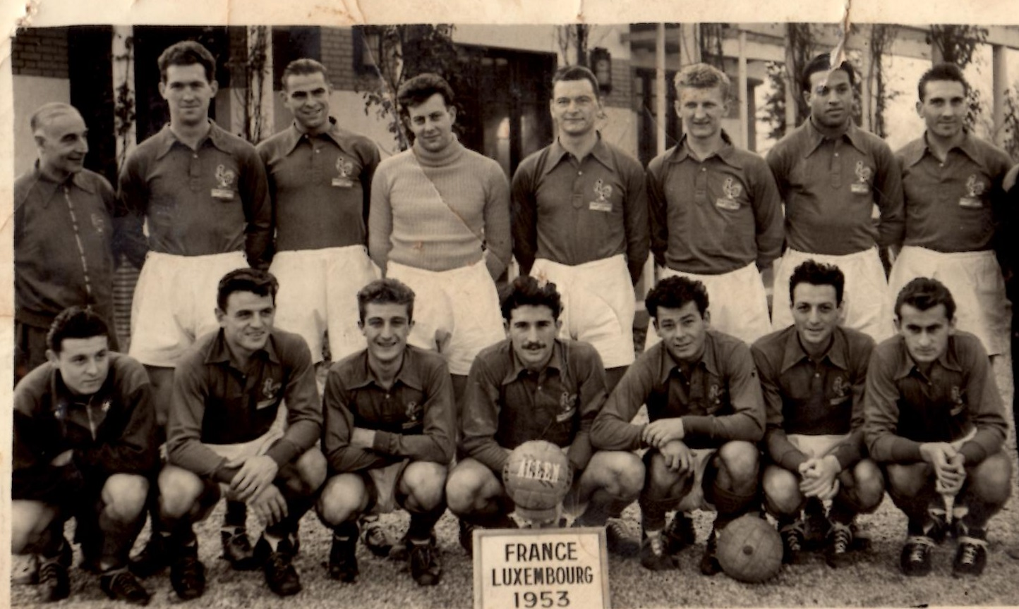 EQUIPE FRANCE FOOTBALL - 1953 - WOZNIEZKO